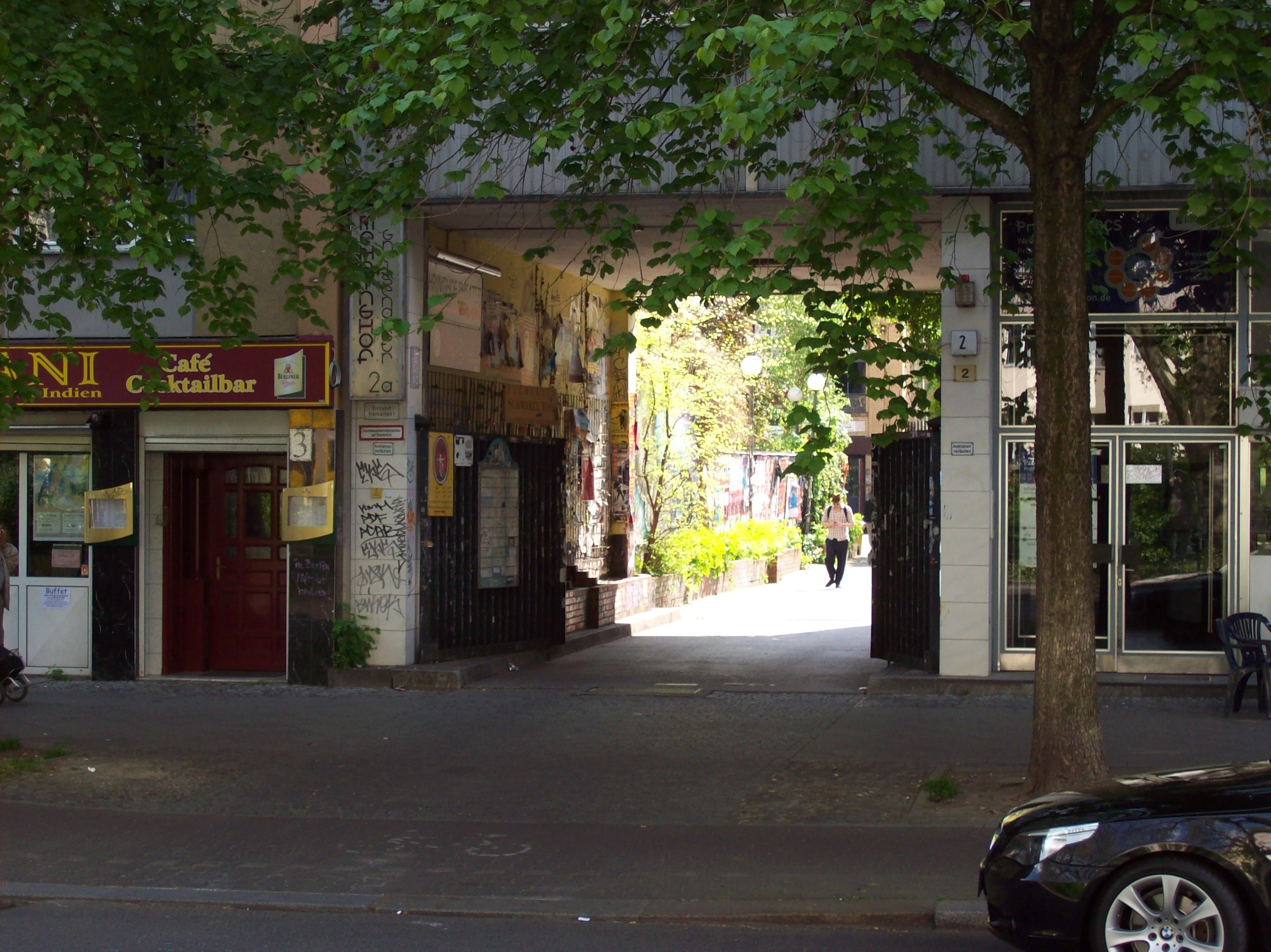 Entrance to the Mehringhof in Berlin